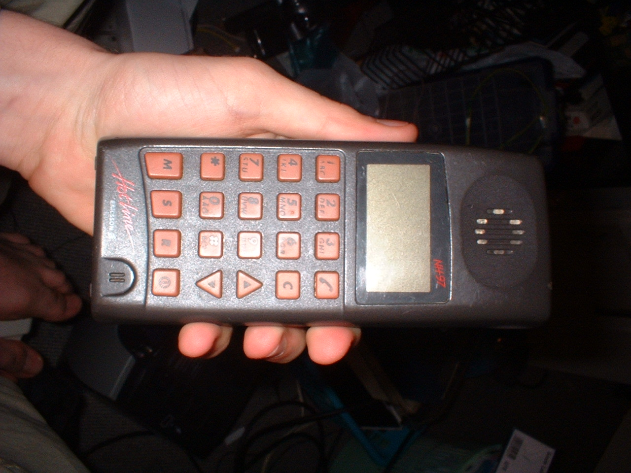 NMT 900 Mobile Phone Ericsson Hotline NH97.